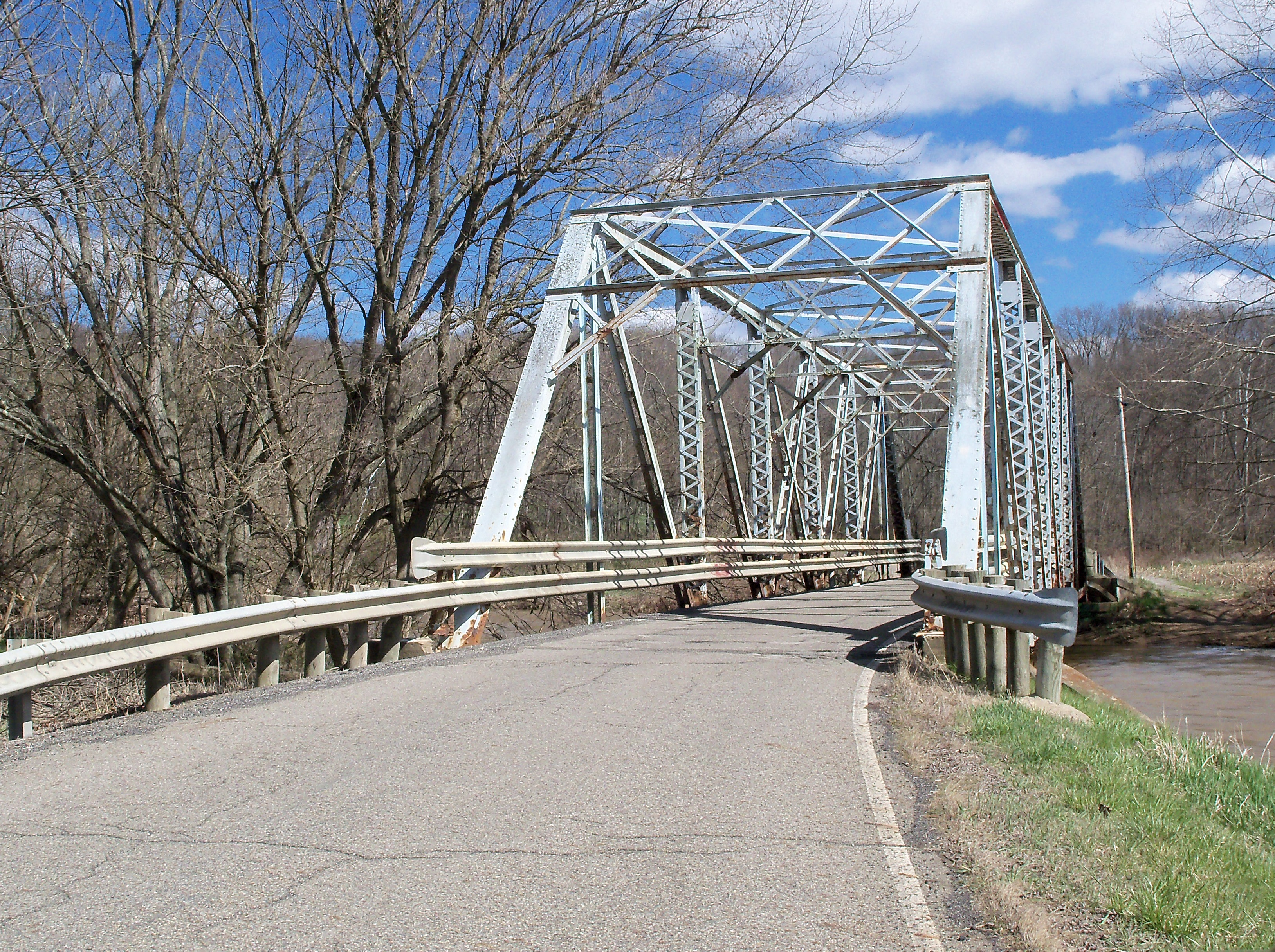 One lane steel bridge over Yellow Creek in Jefferson County, Ohio on County Road 53